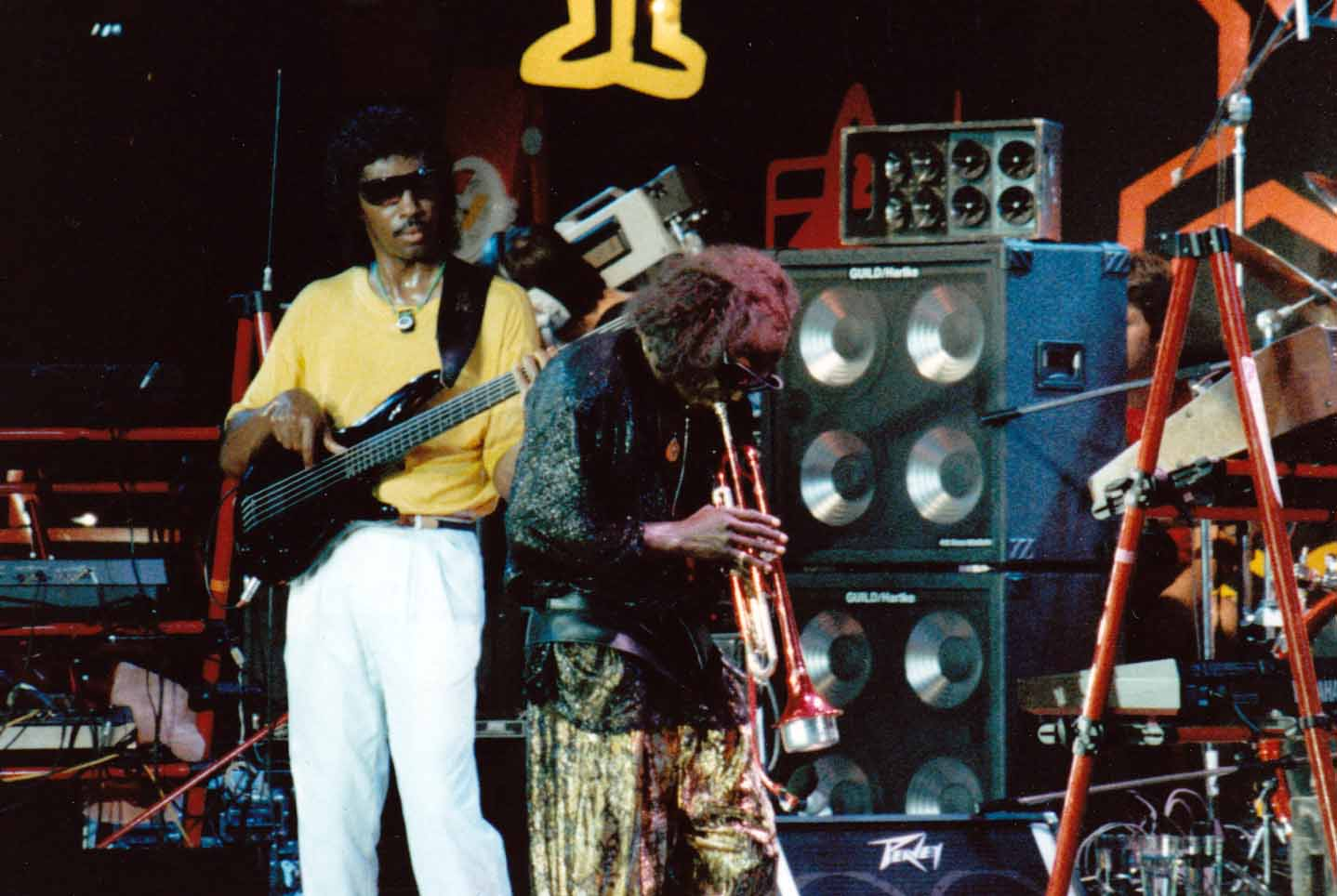 Miles Davis in 1986 at Montreux Jazz Festival.